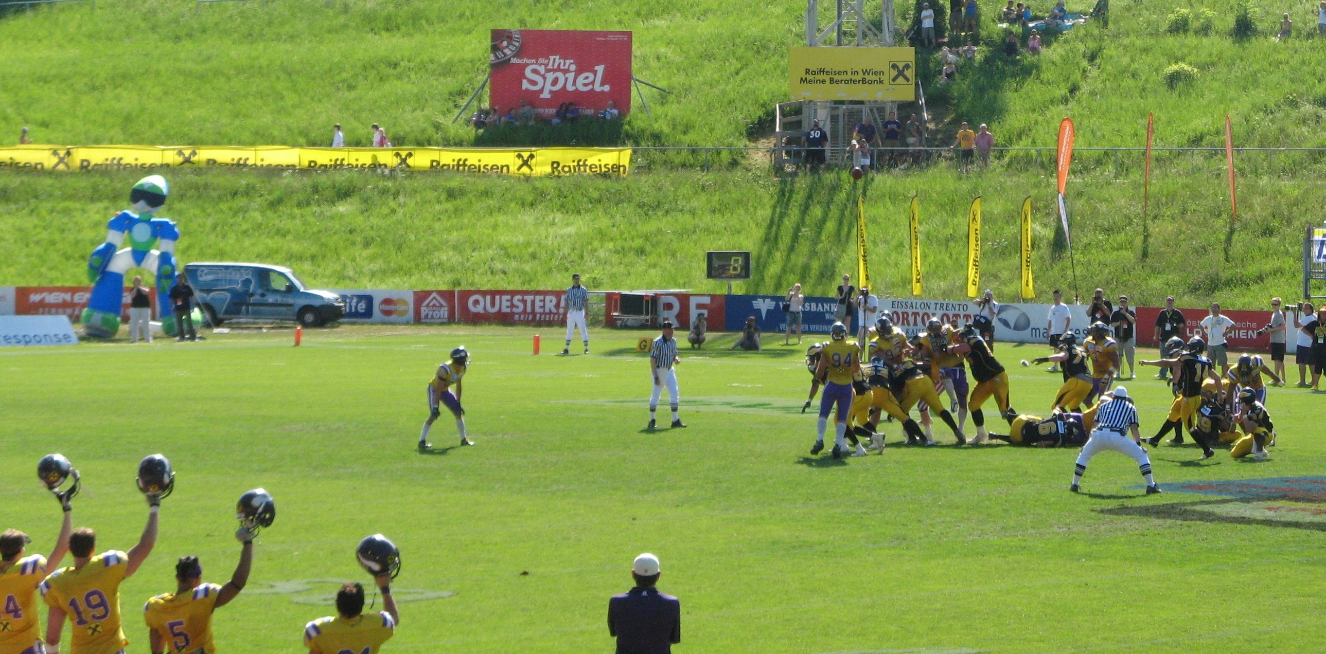 Eurobowl XXIV: Raiffeisen Vikings Vienna gegen Eurobowl XXIV: Raiffeisen Vikings Vienna vs. Berlin Adler (31:34), @ Hohe Warte Stadium Vienna Game deciding 52-Yard Field goal by Benjamin Scharweit